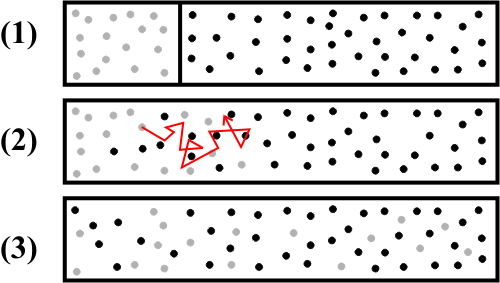 Schematic representation of the mixing of two substances by diffusion